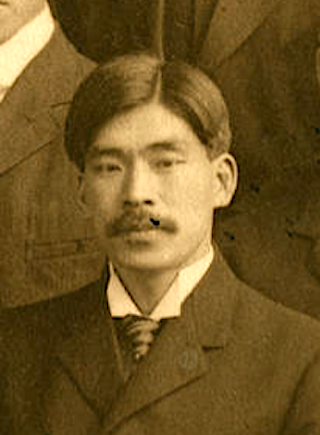 This is a depiction of Hyozo Omori from 1907 class photo. Being more than a 100 years old, I boldly believe the image to be in the public domain. This is cropped from original source.